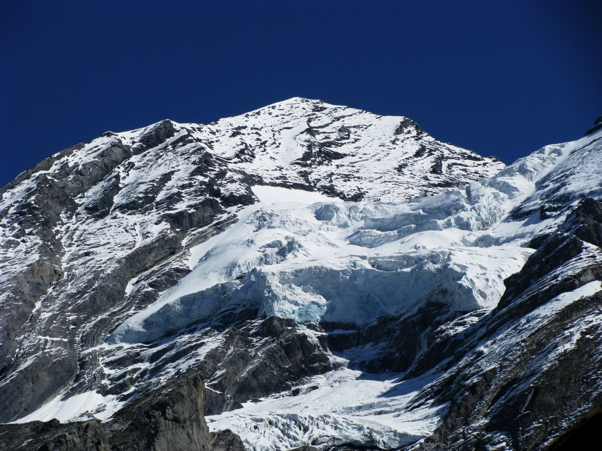 Blümlisalphorn